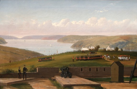 The Regiment at Pembroke - A painting of the Royal Monmouthshire (Light Infantry) Militia at Pembroke Dock.